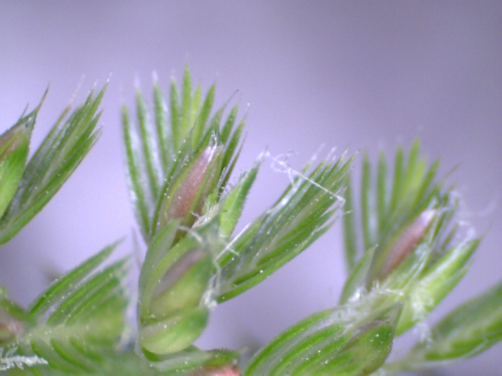 Glumes and lemma of Crested dogstail